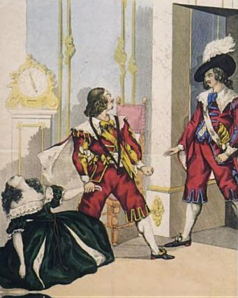 A depiction of the final scene of Gaetano Donizetti's opera Maria di Rohan (1843) at its world premiere in Vienna with Eugenia Tadolini as Maria, Giorgio Ronconi as Chevereuse and Carlo Guasco as Chalais. Published 5 August 1843 in Vienna by the Wiener Theaterzeitung.